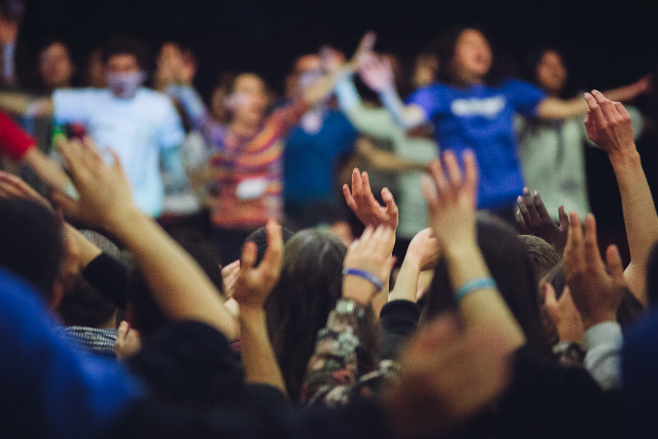 People cheer at AIESEC France's Spark 2013 congress